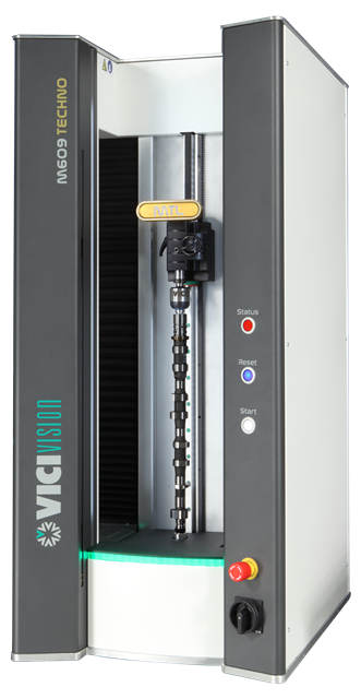 Typical Cylindrical Coordinate Measuring Machine employing a rotating table and camera system with an optional tactile probe.